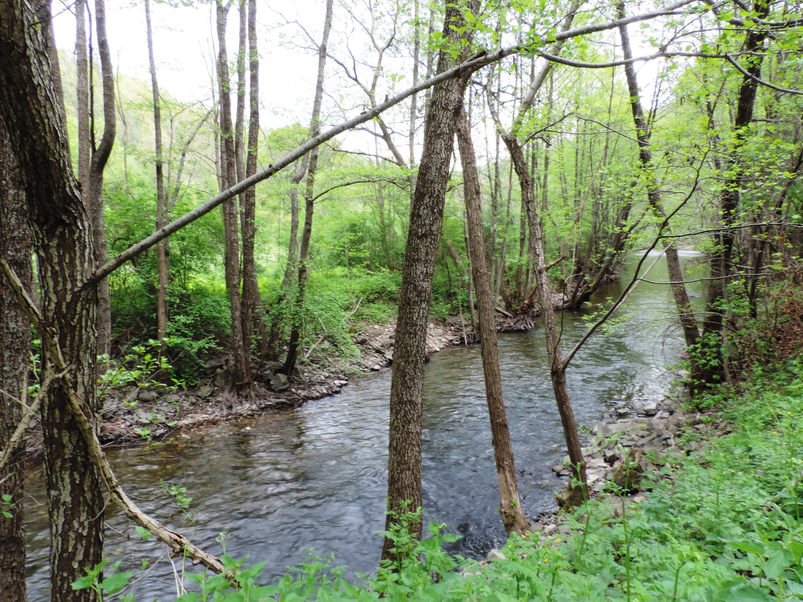 Dragovishtitsa River between villages Dolno Uyno and Goranovtsi, Bulgaria